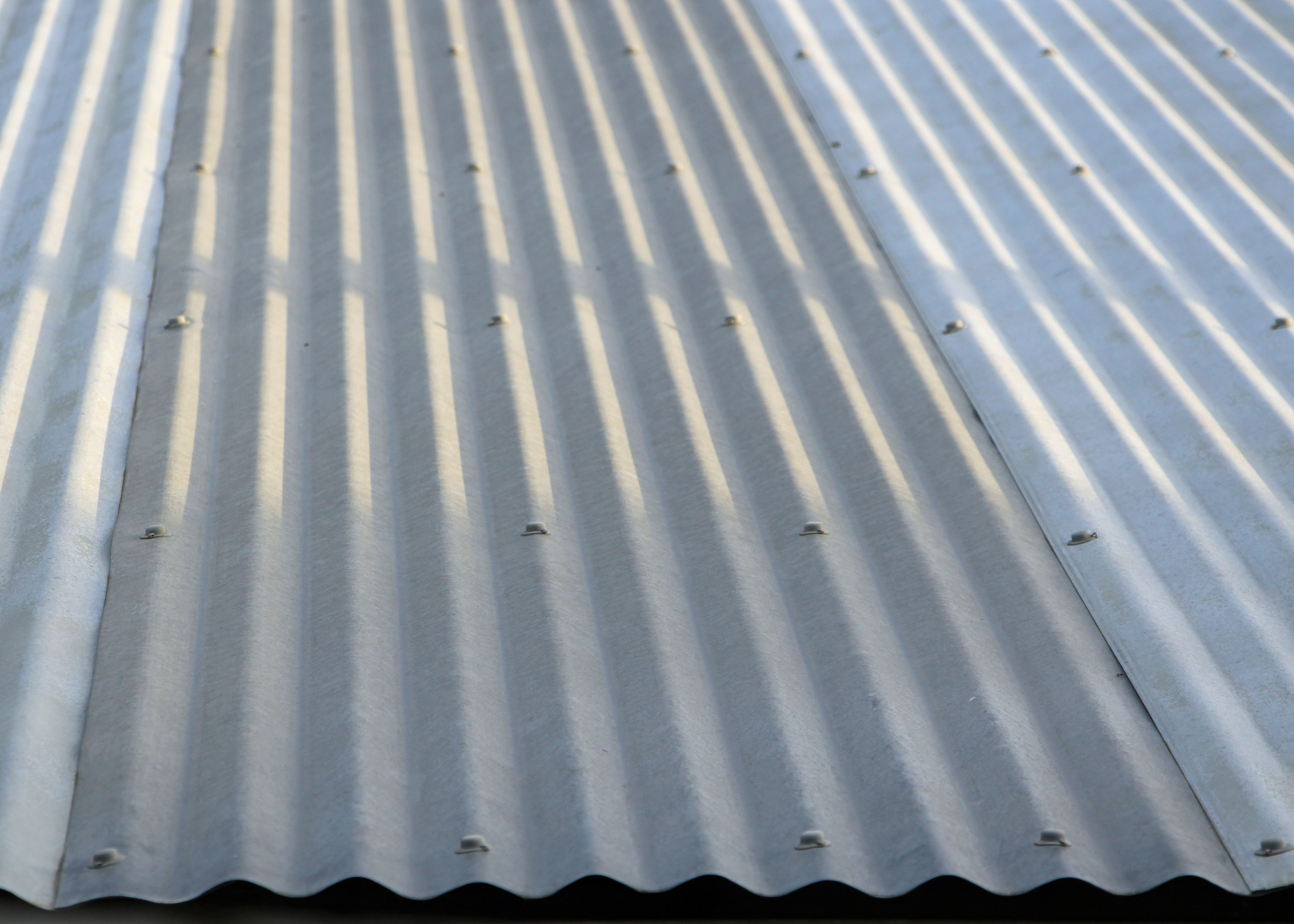 Victorian style corrugated fibre cement roofing in Stellenbosch, South Africa